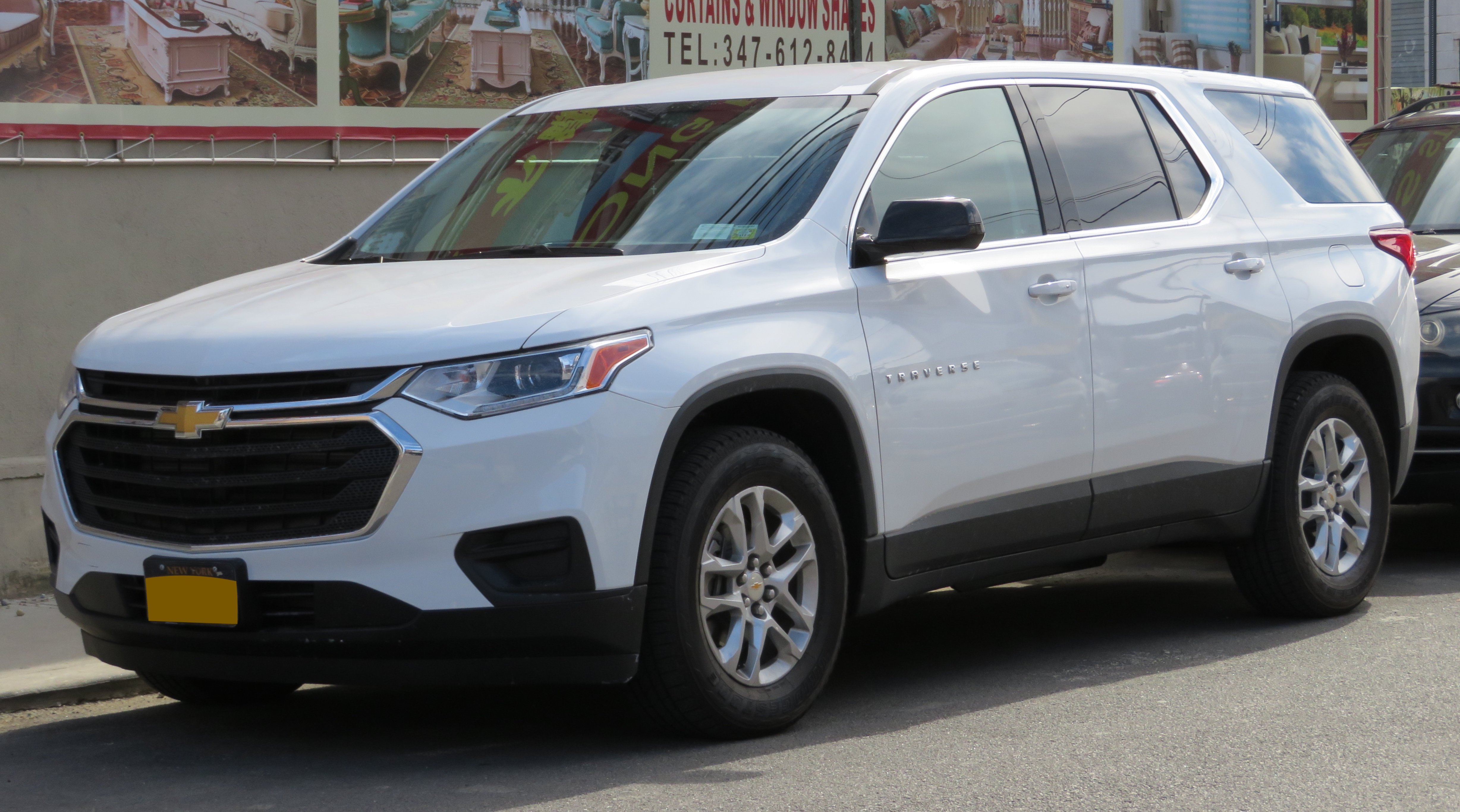 In Flushing, New York